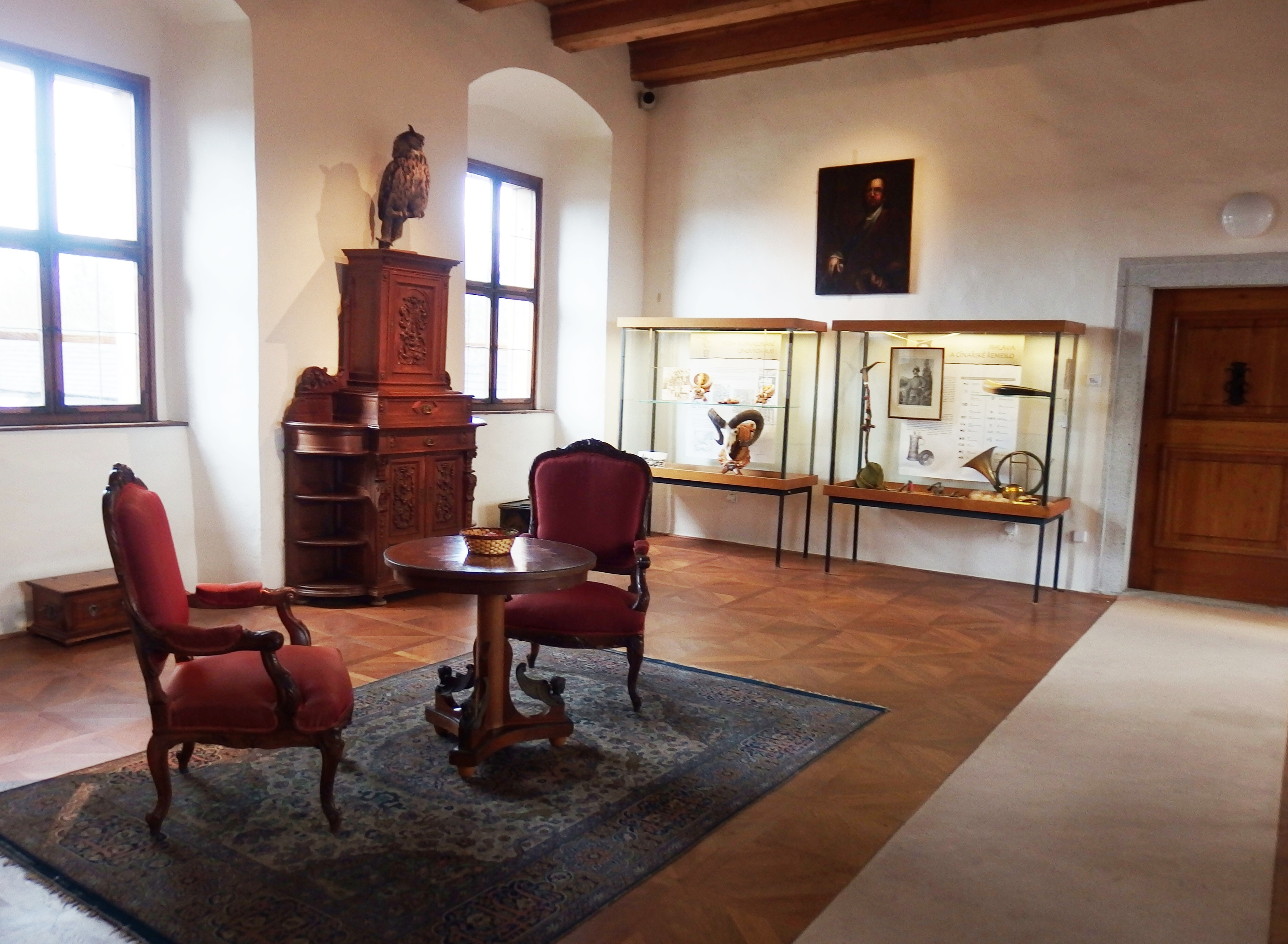 Roštejn Castle, Jihlava District, Czech Republic.